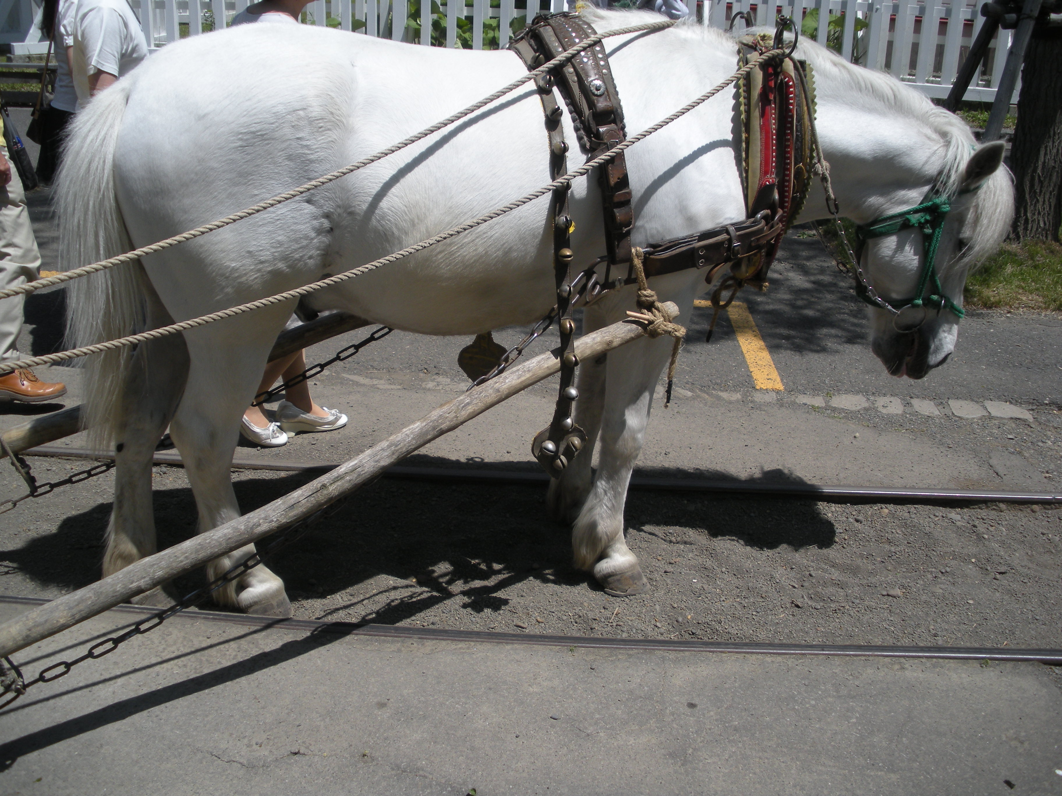 Hokkaido Pony"Dosanko" (Japan Hokkaido native horse)